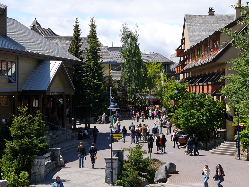 Whistler, B.C.